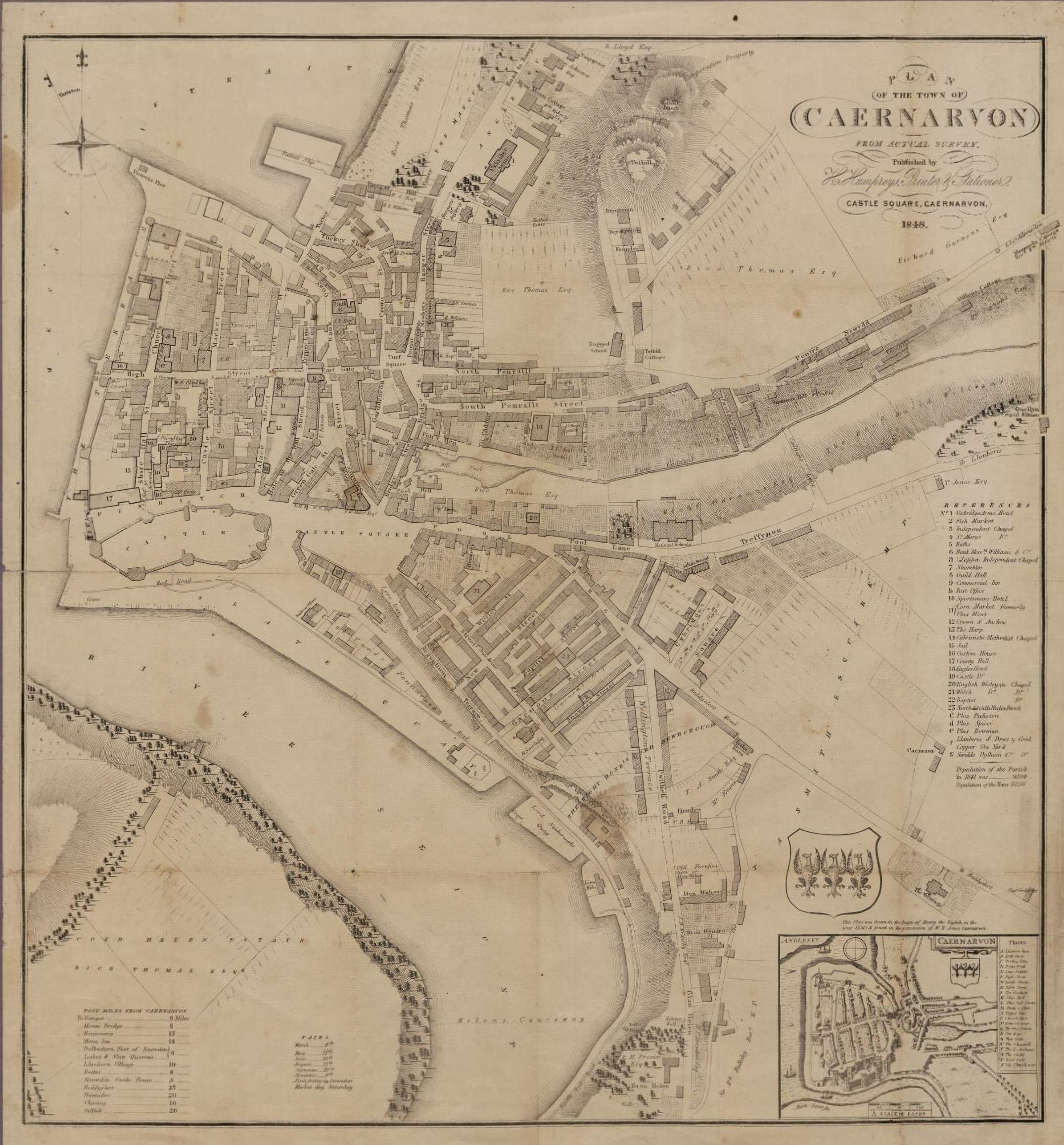 Included is the well-known and once very busy Slate Quay. An atypical inset plan with index of the town (bottom right) “drawn in the Reign of Henry the Eighth, in the year 1530, & found in the possession of W.R. Jones, Caernarvon” is in fact an inset plan by John Speed which first appeared in his map of Caernarfonshire of 1610. Here, John Wood's original map of 1834 has been reworked, augmented and published by the printer H. Humphreys of Caernarfon.